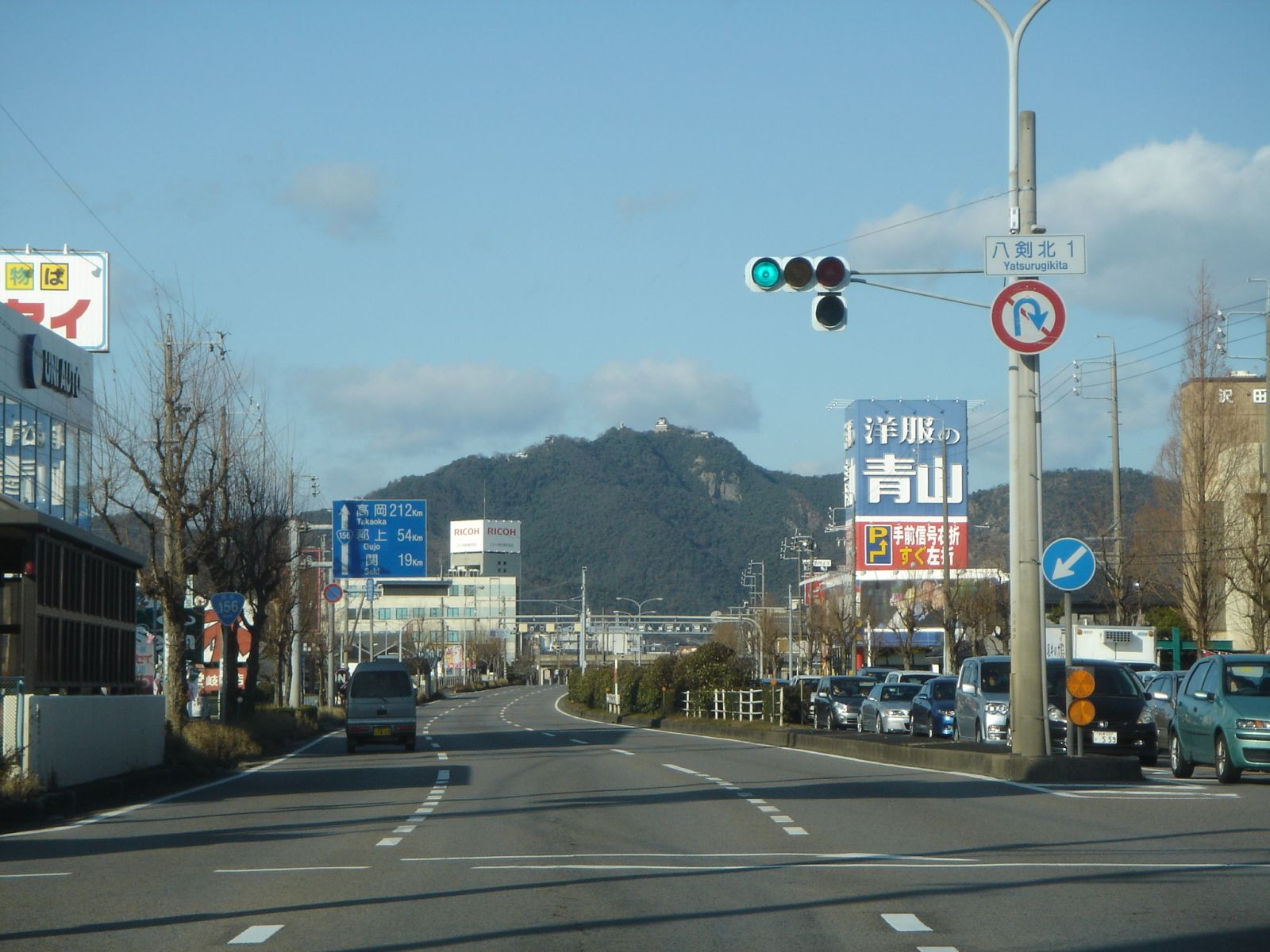 Japanese National Route156 at Ginan,Gifu.